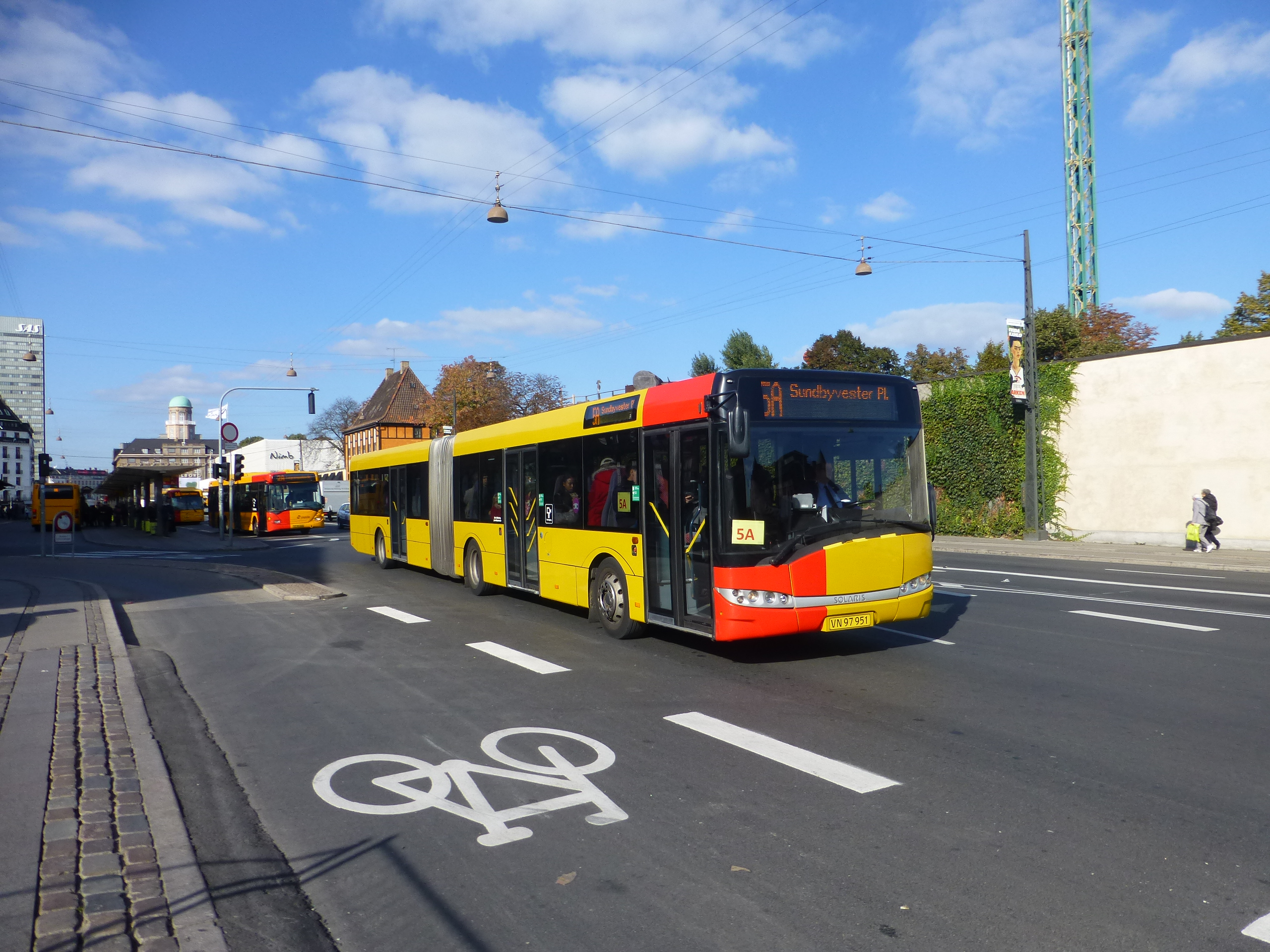 Test with articulated buses on line 5A on Bernstorffsgade in Copenhagen. Solaris Urbino.